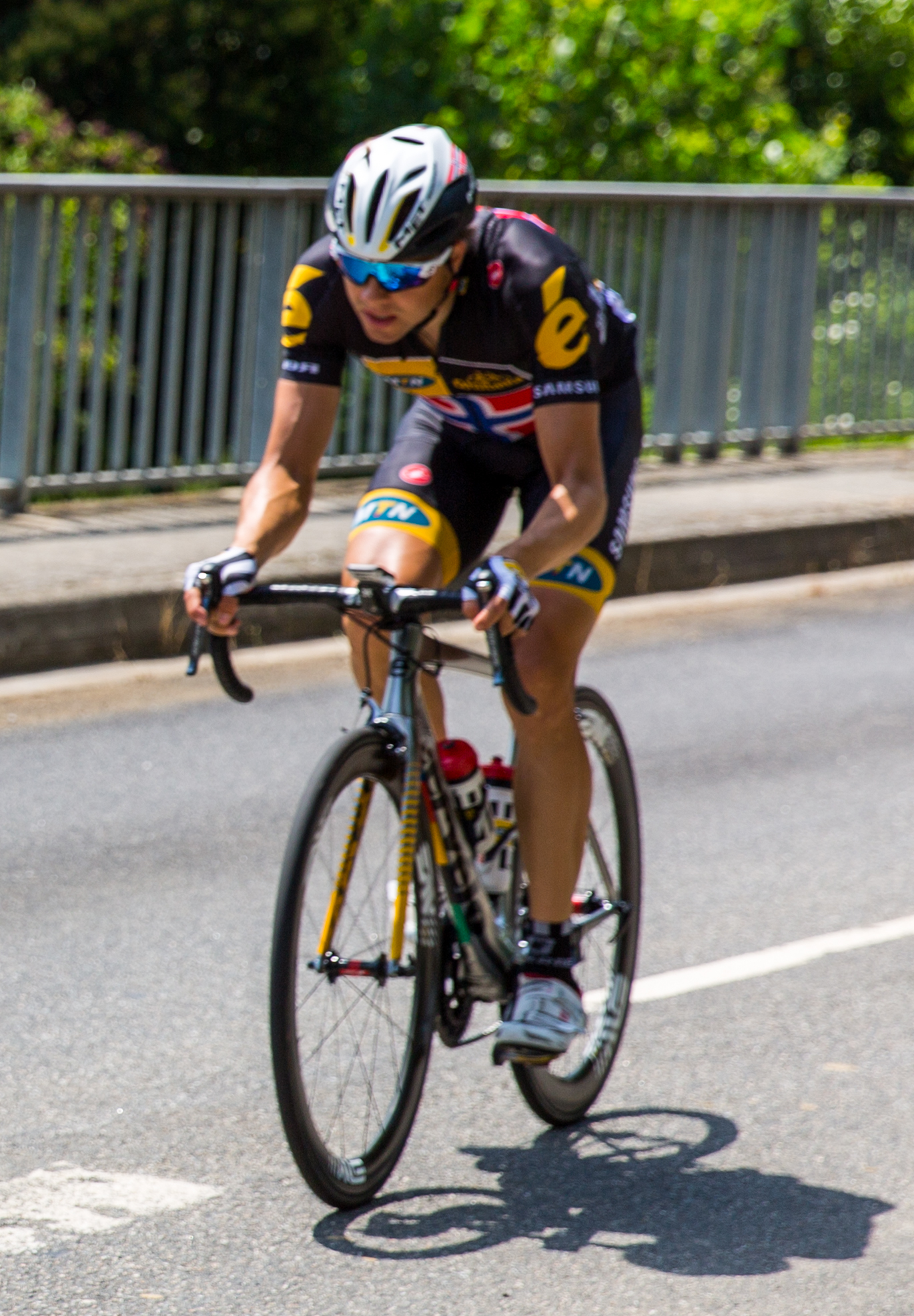 Sebastian Langeveld (TCG) and Edvald Boasson Hagen (MTN) during stage 13.